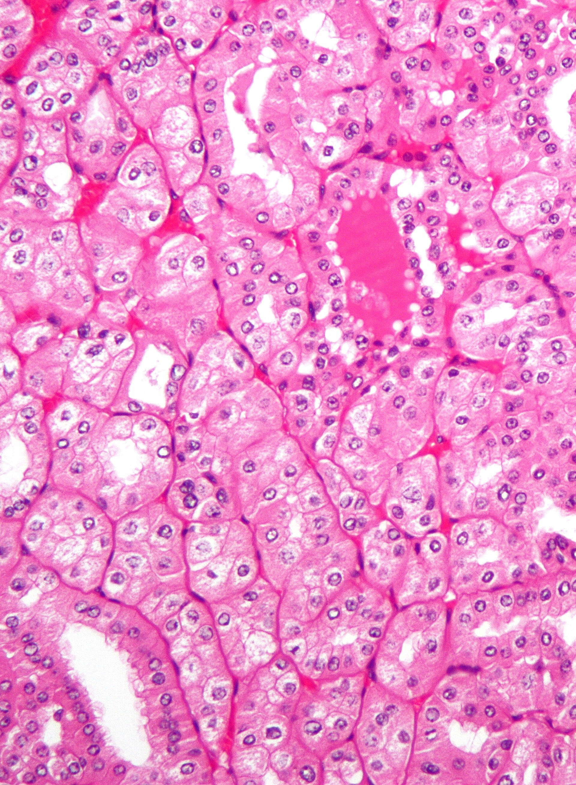 High magnification micrograph of chromophobe renal cell carcinoma, oncocytic variant. H&E stain. The features of chromophobe renal cell carcinoma (ChRCC) are: Pale staining cytoplasm. Periphery of cells distinct. Perinuclear clearing. The oncocytic variant of ChRCC, seen above, has eosinophilic cytoplasm. The term (ChRCC oncocytic variant), etymologically, may seem self-contradictory, to readers familiar with the fact that oncocytes have eosinophilic cytoplasm; chromophobe means colour-fearing, i.e. something that does not readily take-up dyes. The main differential diagnosis is renal oncocytoma, which like the oncocytic ChRCC has oncocytic cytoplasm, but lack perinuclear clear and has bland nuclei.